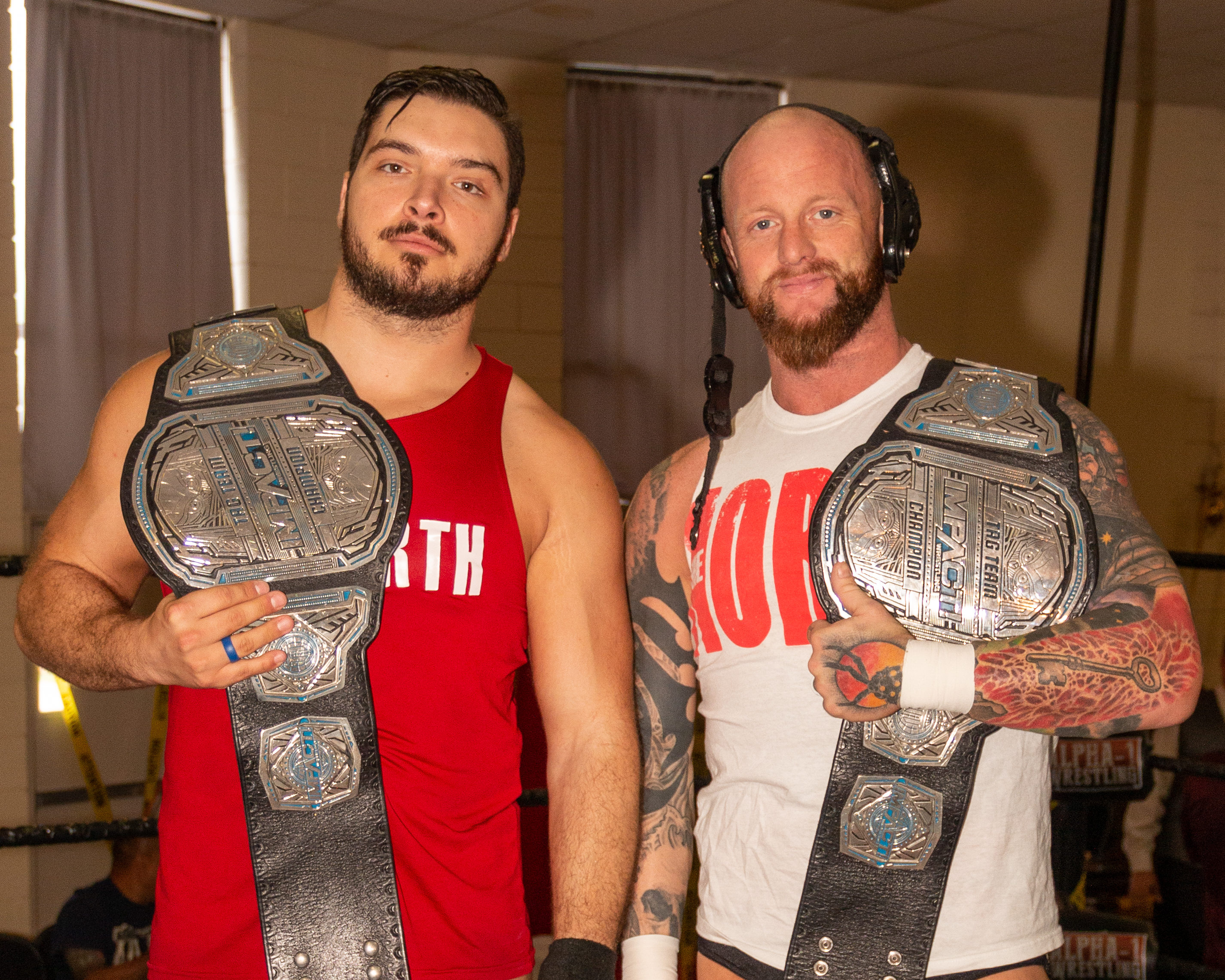 Impact World Tag Team champions The North - Ethan Page (left) and Josh Alexander - posing with the championship belts pre-show at an Alpha-1 Wrestling event in Hamilton, ON